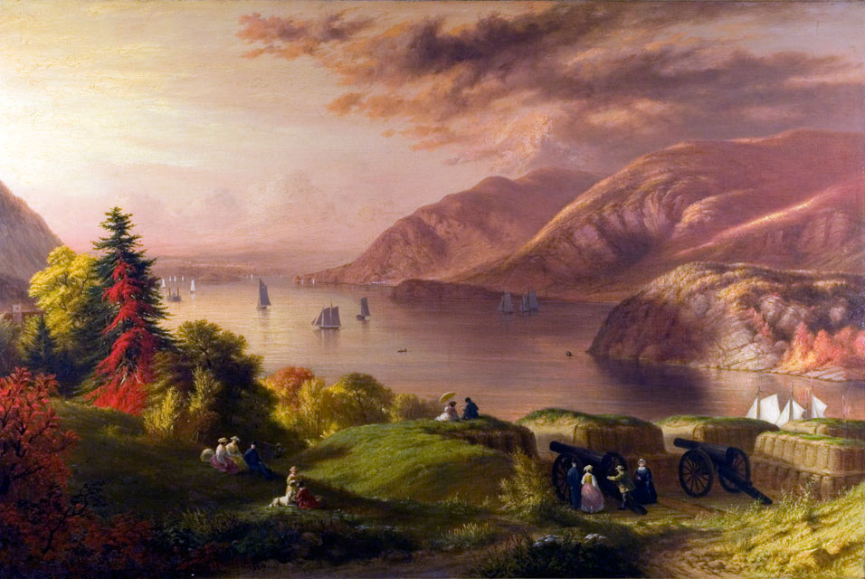 View of the Hudson River by Robert Walter Weir, 1864, 31.5 x 47.5 inches, oil on canvas, West Point Museum Collection, United States Military Academy, West Point, New York